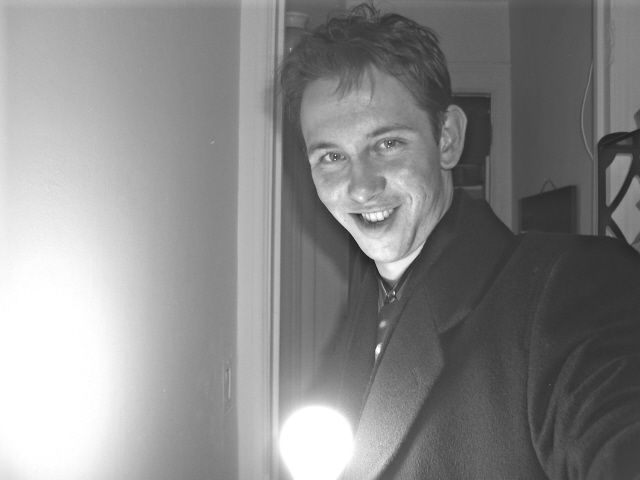 Tucker Hollingsworth at an apartment in NY, NY in November 2007.jpg